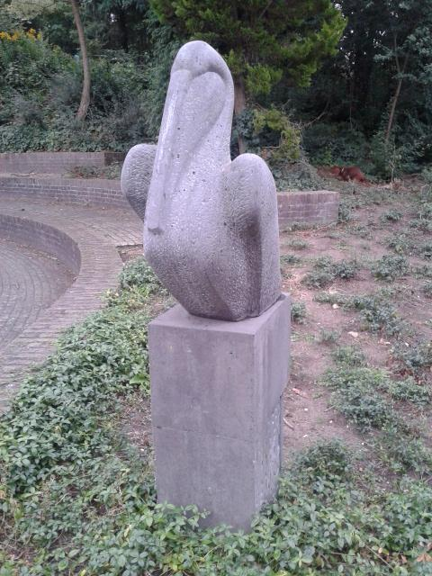 Resistance monument in the shape of a pelican, Bart Hendriksstraat, Nijmegen.